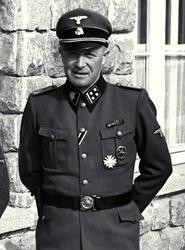 SS-Obersturmbannführer (OF-4) Franz Ziereis.